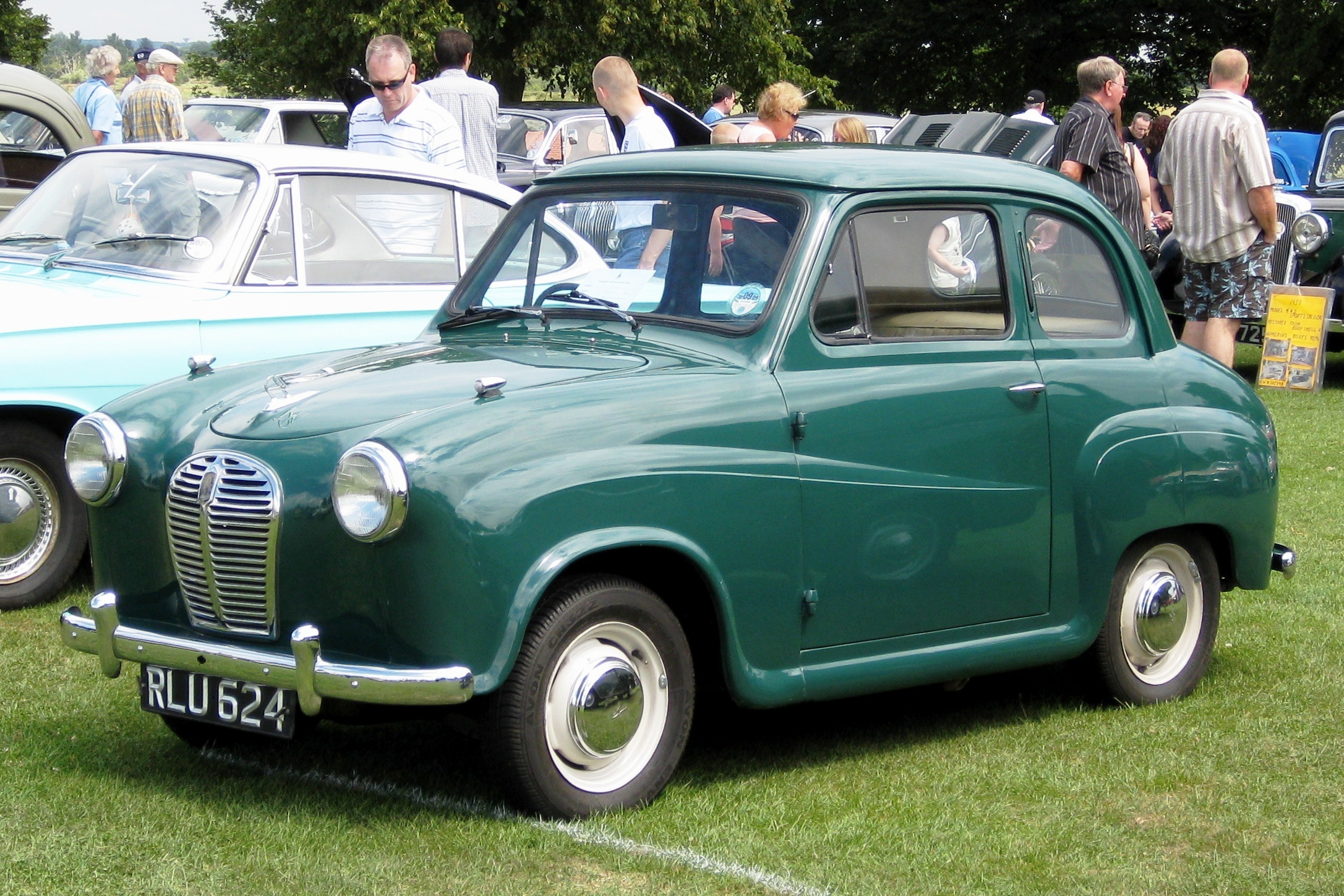 Austin A30 at Maldon